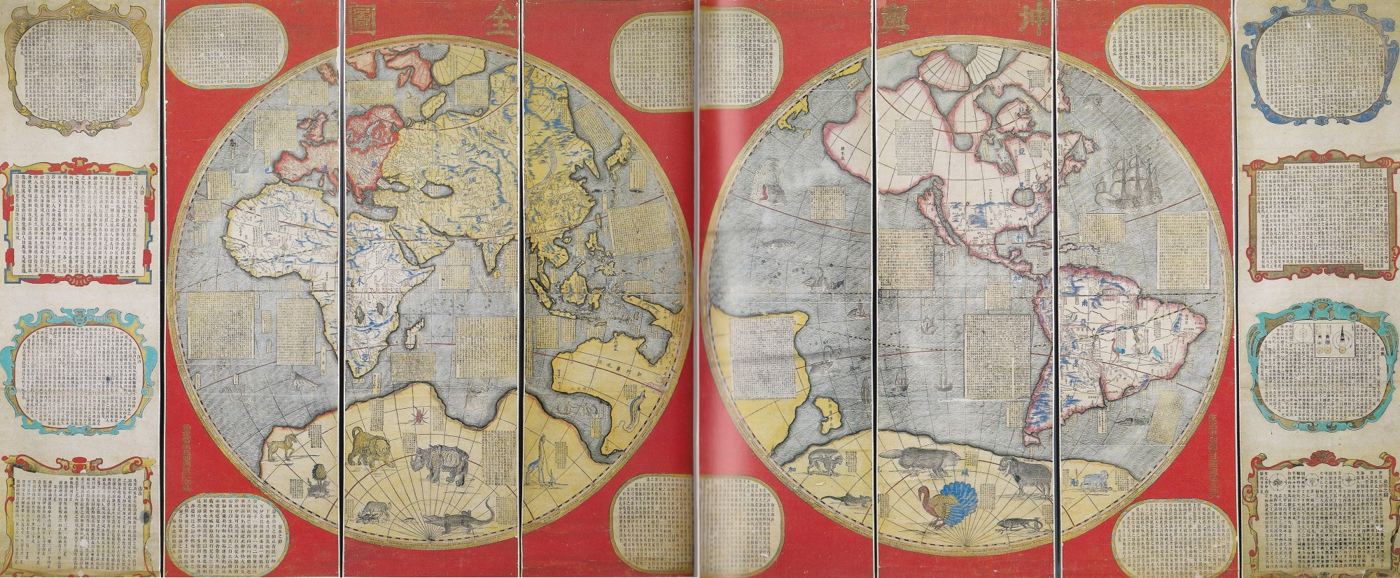 World map after Verbiest, 1674, China, 8 hanging scrolls